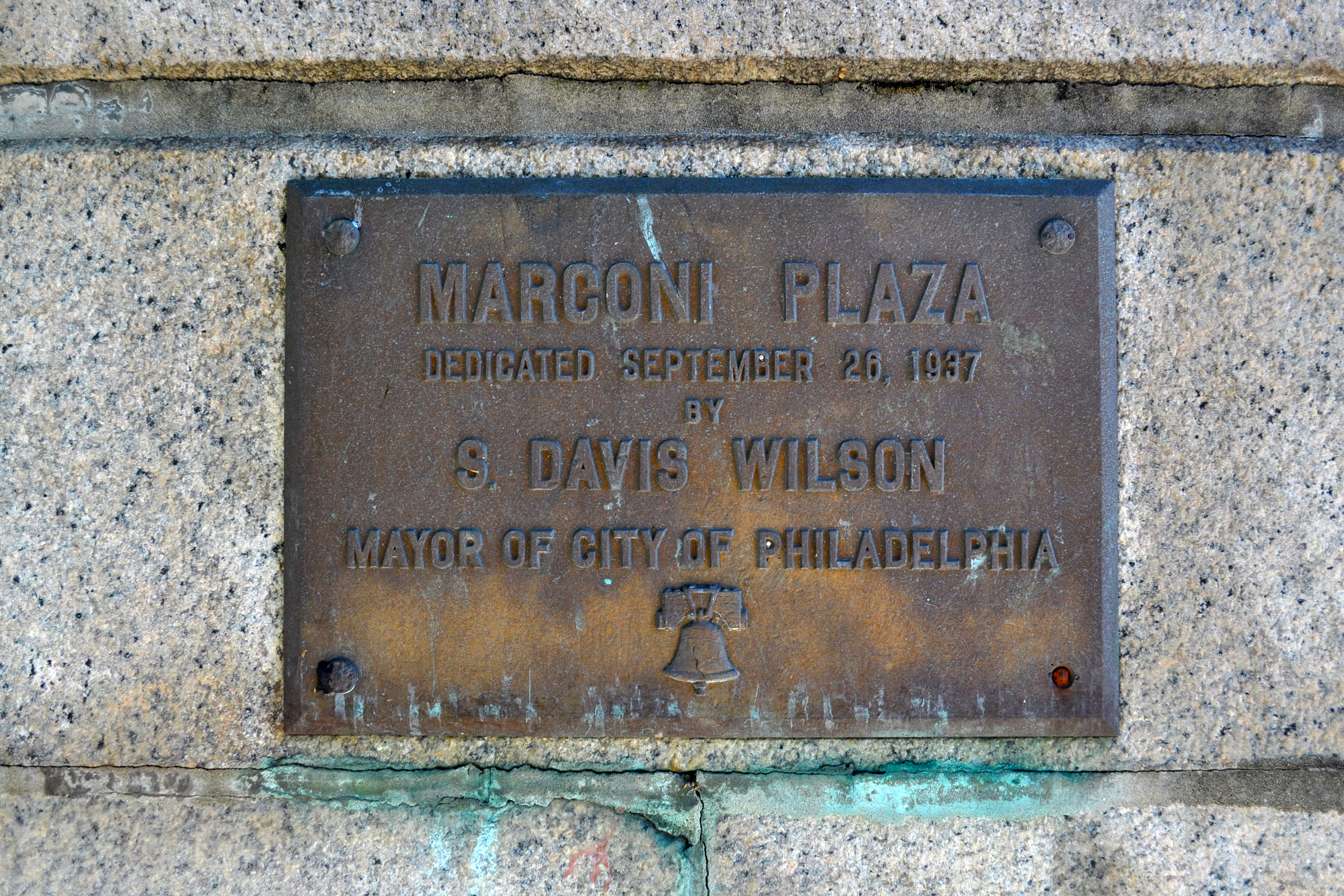 Marconi Plaza Dedication Plaque 26 Sept 1937 - Broad St at Oregon Ave Philadelphia